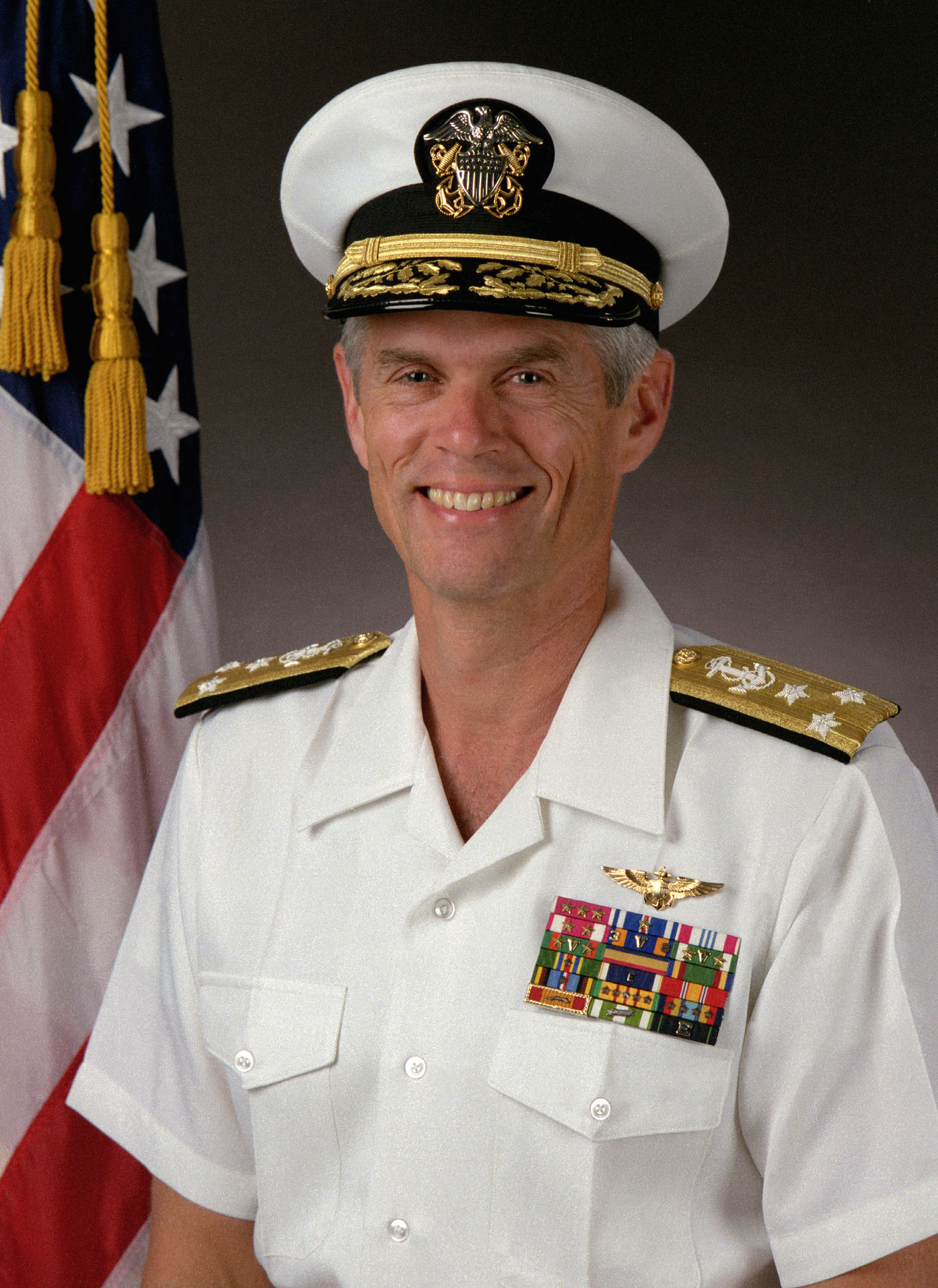 Joseph W. Prueher, retired United States Navy admiral.